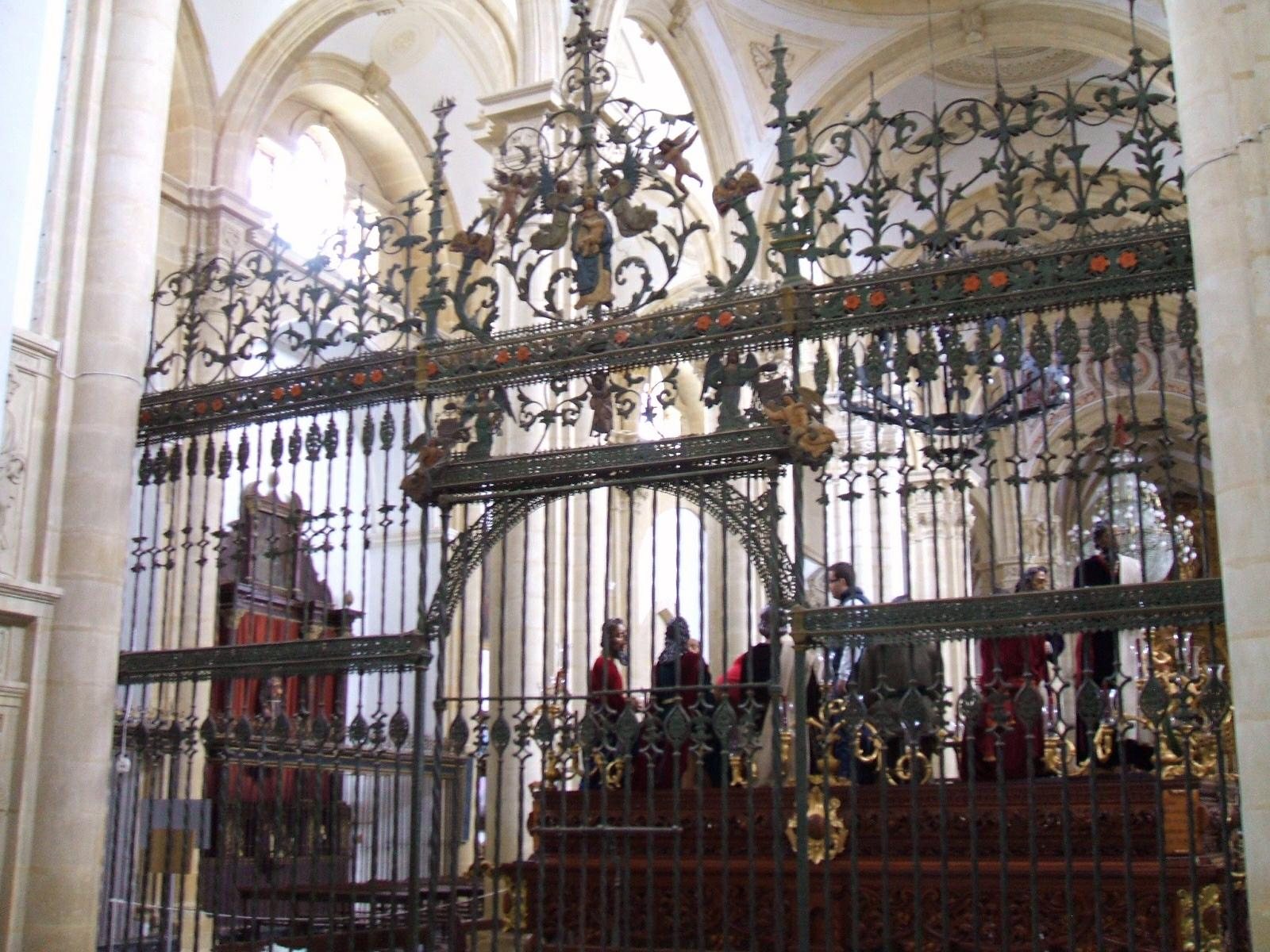 Reja en la Catedral de Baeza